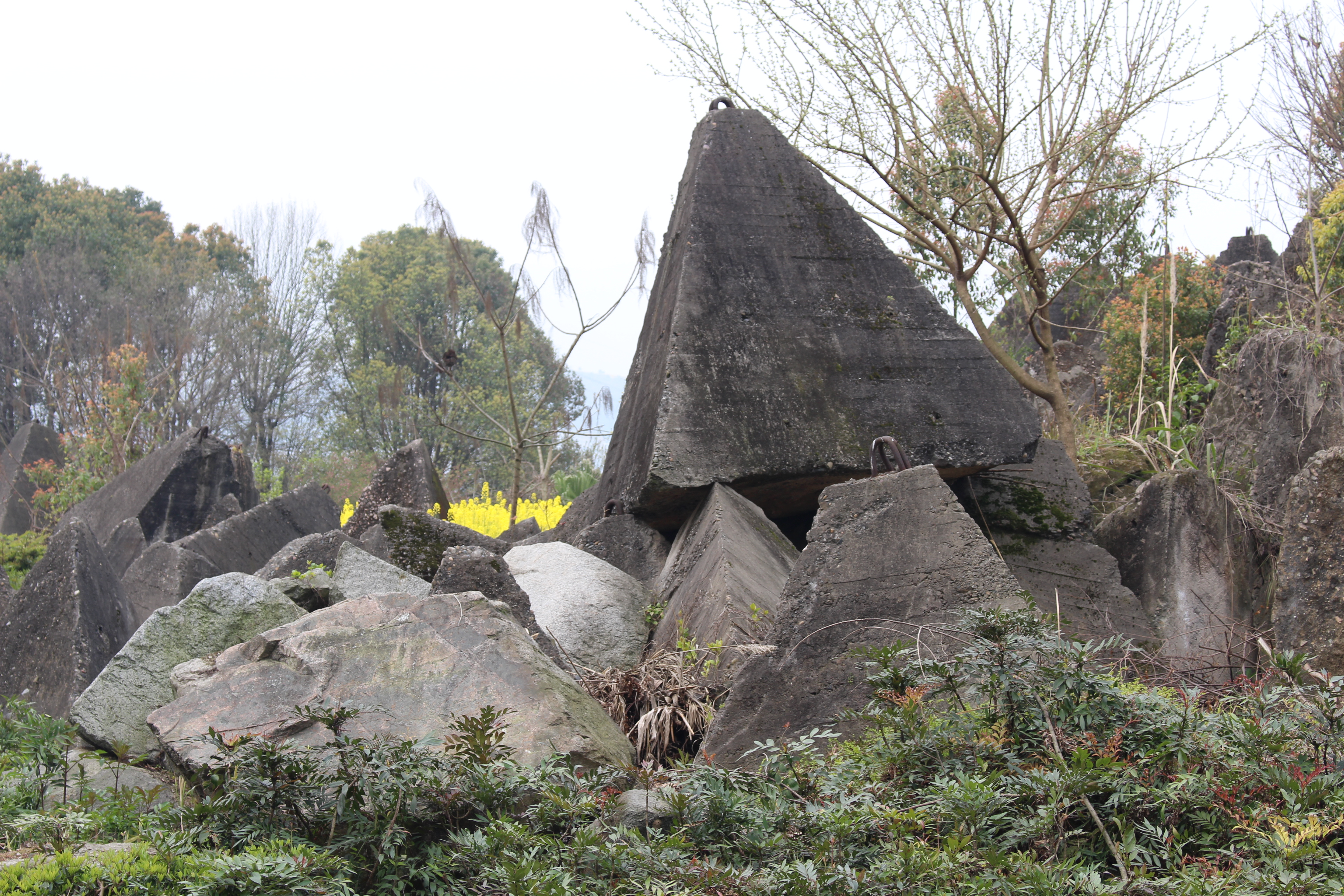 This cement “pyramids” were used for damming the Yangtze River. Each one weight 28 tons